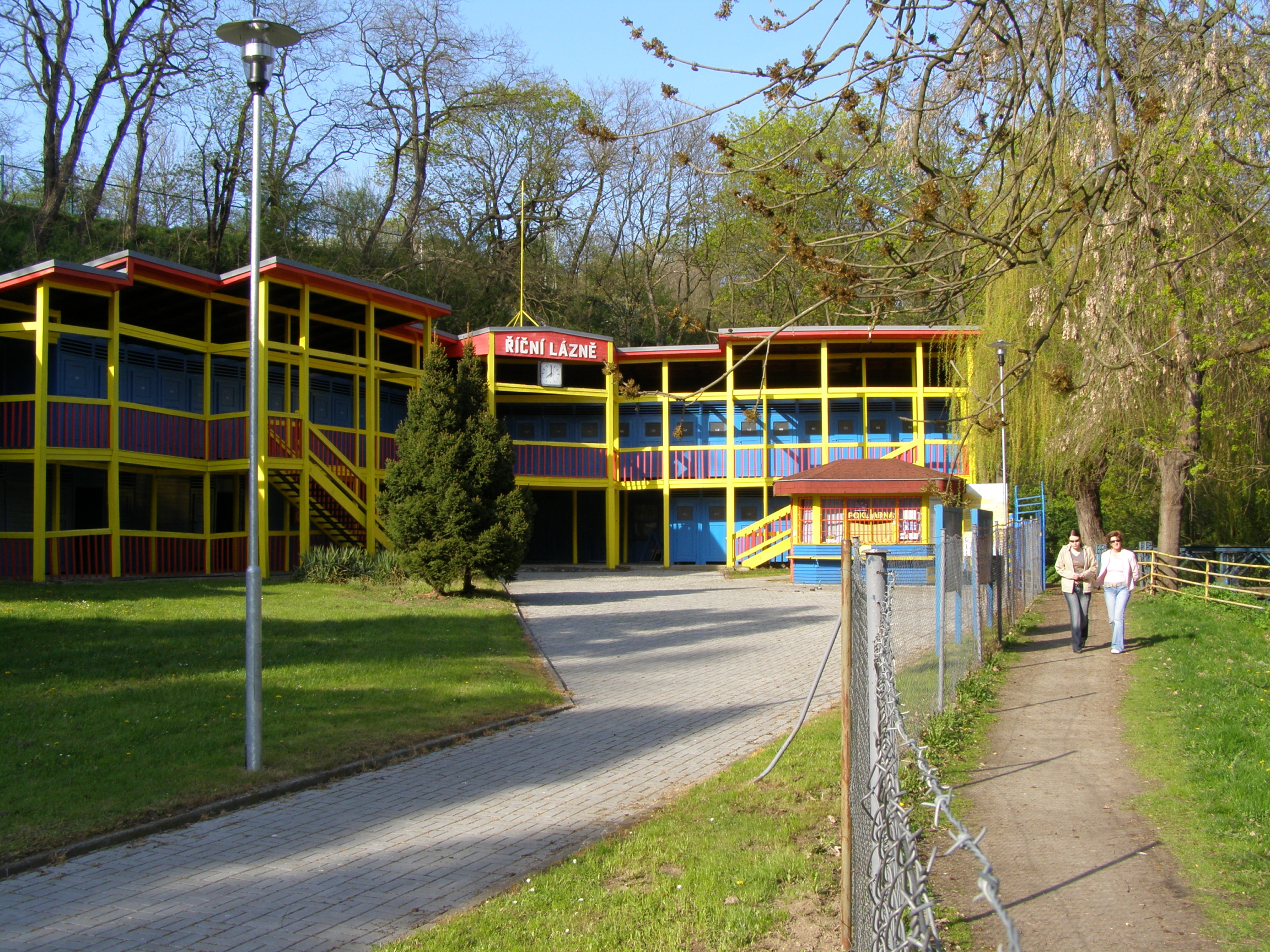 Třebíč-Podklášteří. Bohuslav Fuchs' Polanka river resort